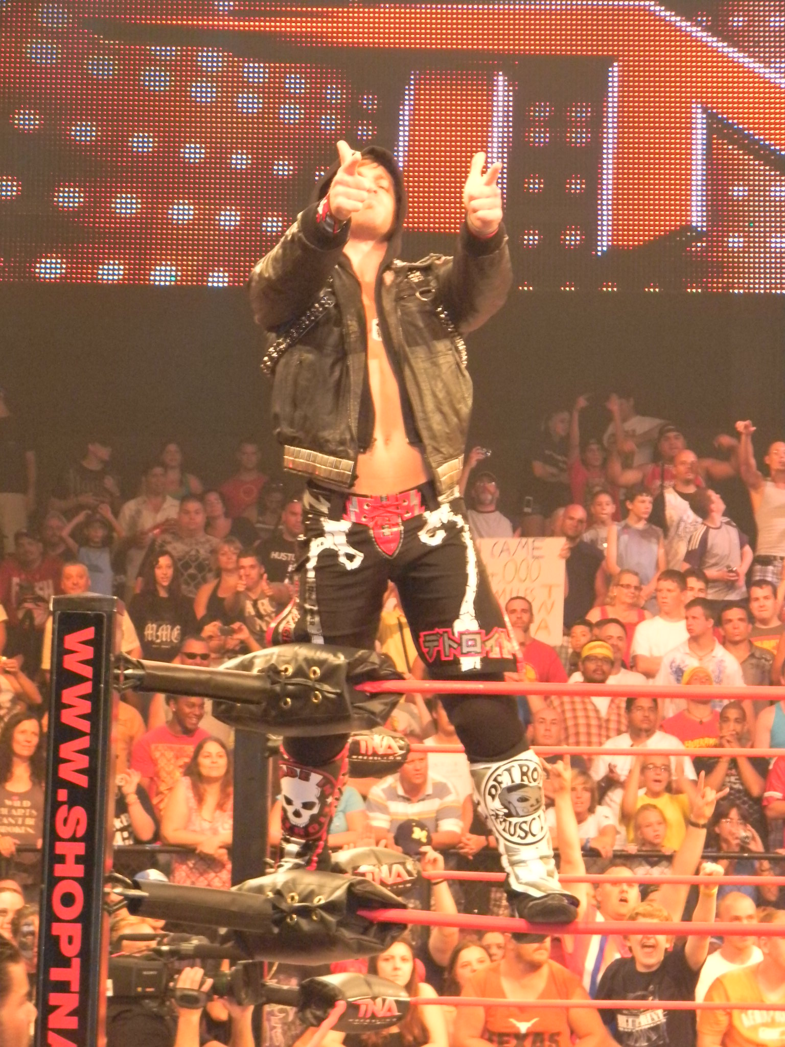 Chris Sabin poses before a six man tag team match at an Impact Taping.